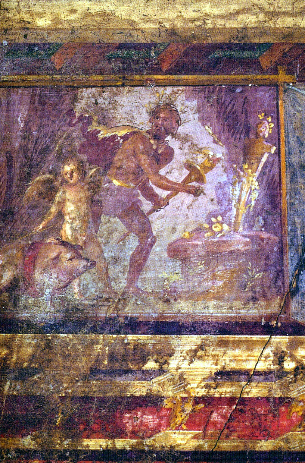 Man suffering from impotence is about to sacrifice a pig to Priapus. Ca. 40 BC. Roman fresco from the eastern wall of room 4 in the Villa dei Misteri in Pompeii.